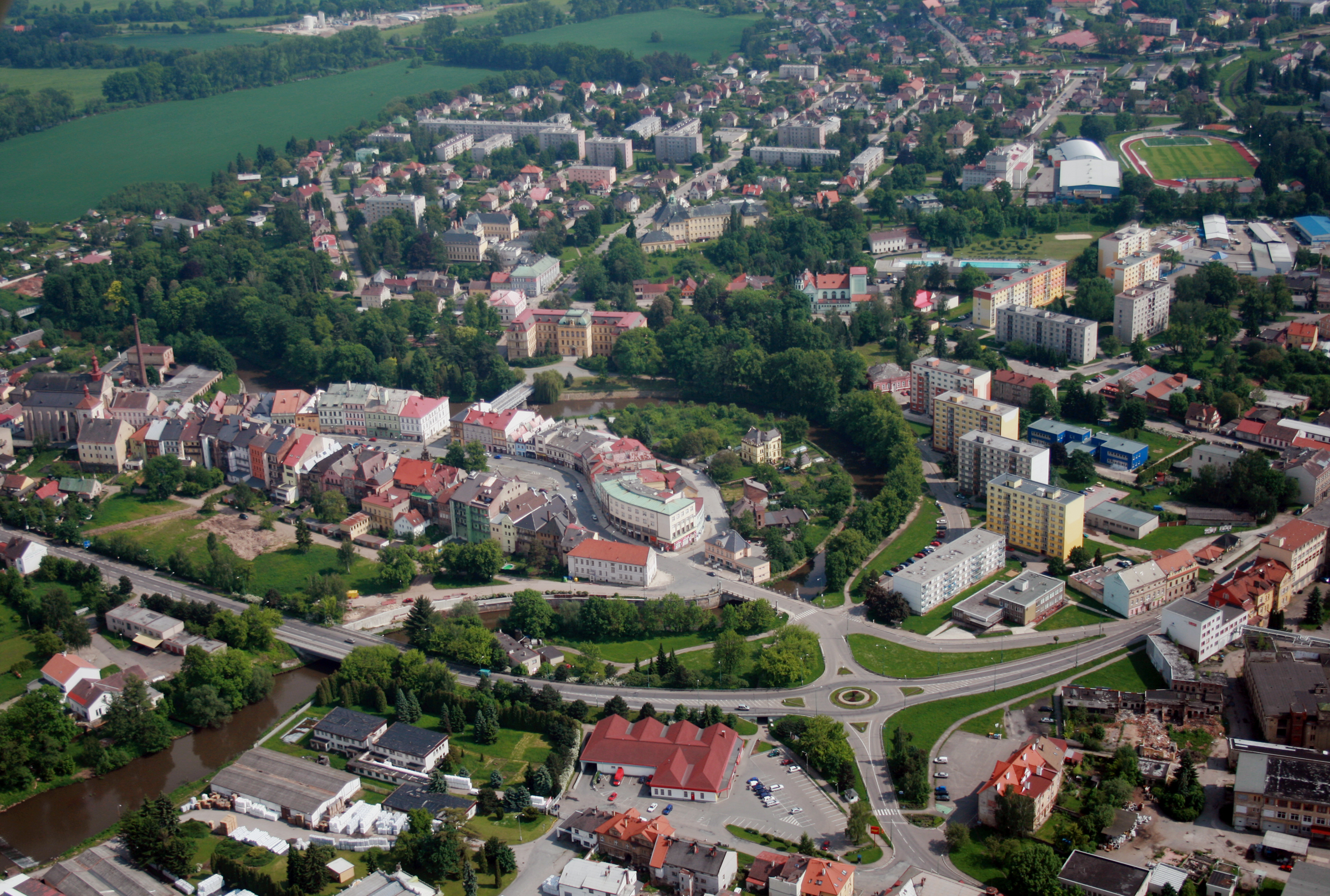 Central part of town Jaroměř from air, eastern Bohemia, Czech Republic Česky: Letecký pohled na centrální část města Jaroměře, východní Čechy